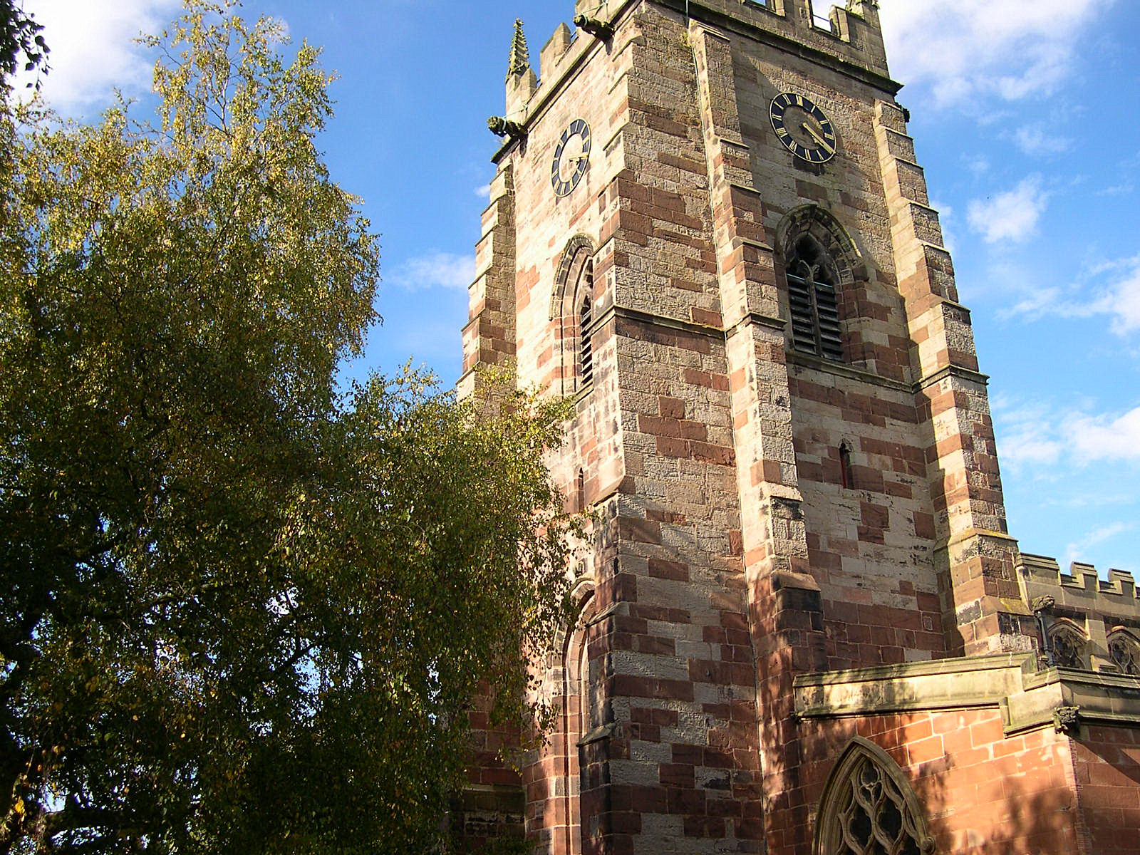 St Marys Church Market Drayton taken by K. Ruscoe